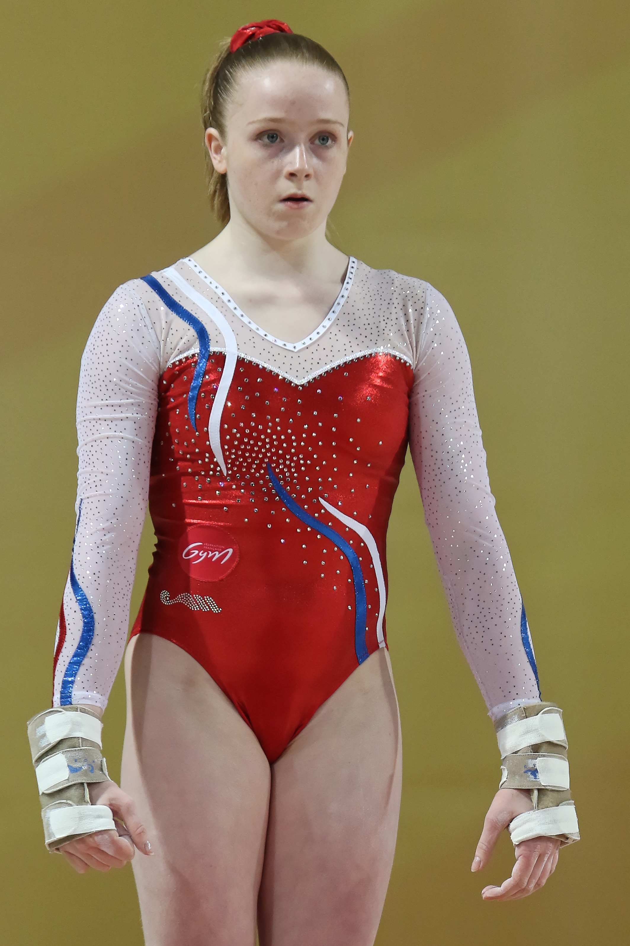 2015 European Artistic Gymnastics Championships. Vault.